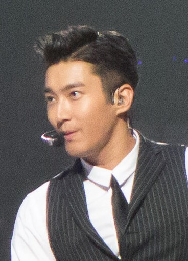 KCON 2015 Siwon